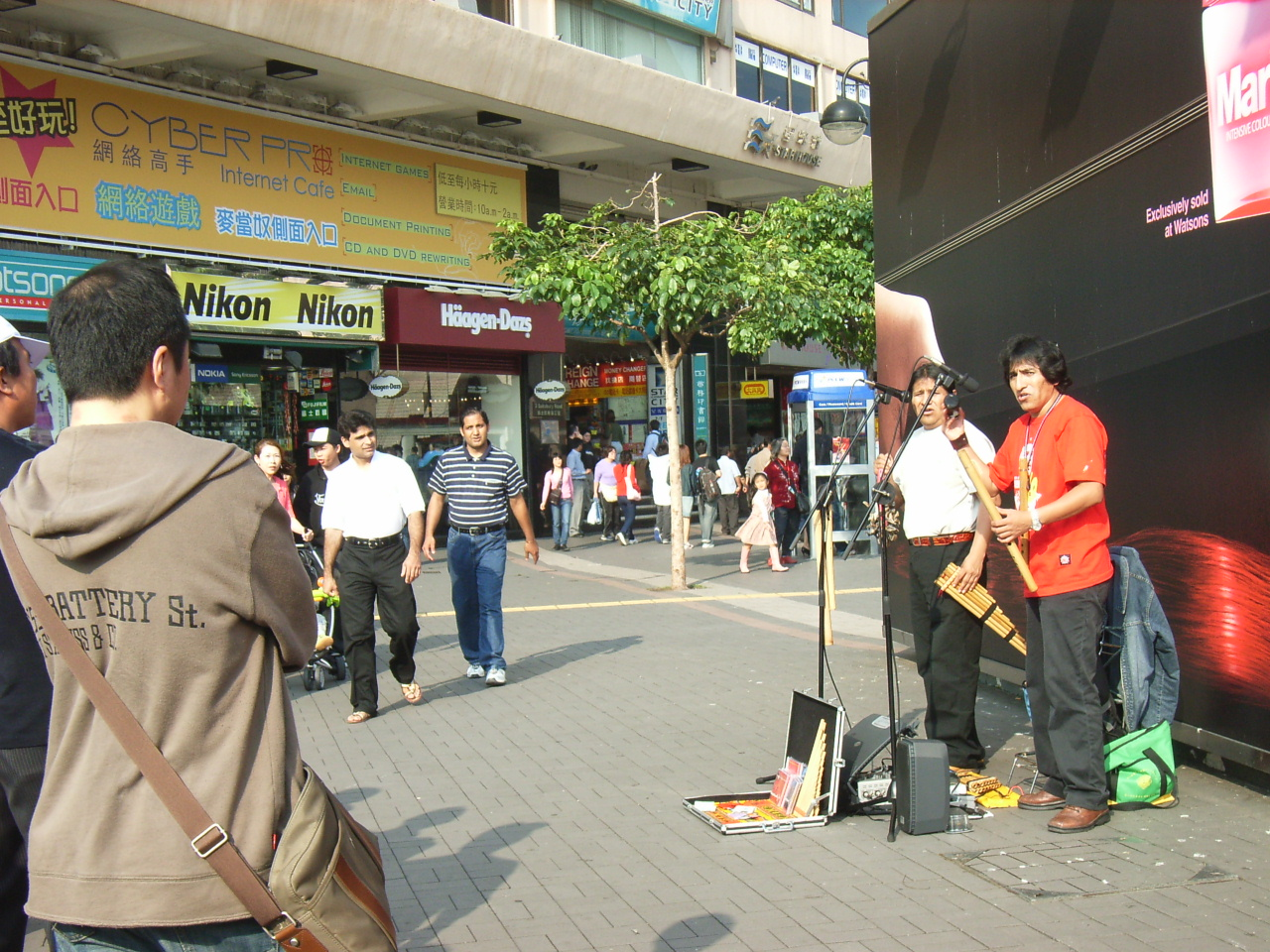 街頭藝人 又稱 街道zh:藝術家, 有些是即興表演, 有些是為謀生, 也有些是為了宣傳推廣他的商品, 例如圖中的藝人他們的純zh:音樂zh:光盤. Street performers in TST, Hong Kong. Photo created by User:HungBEER.